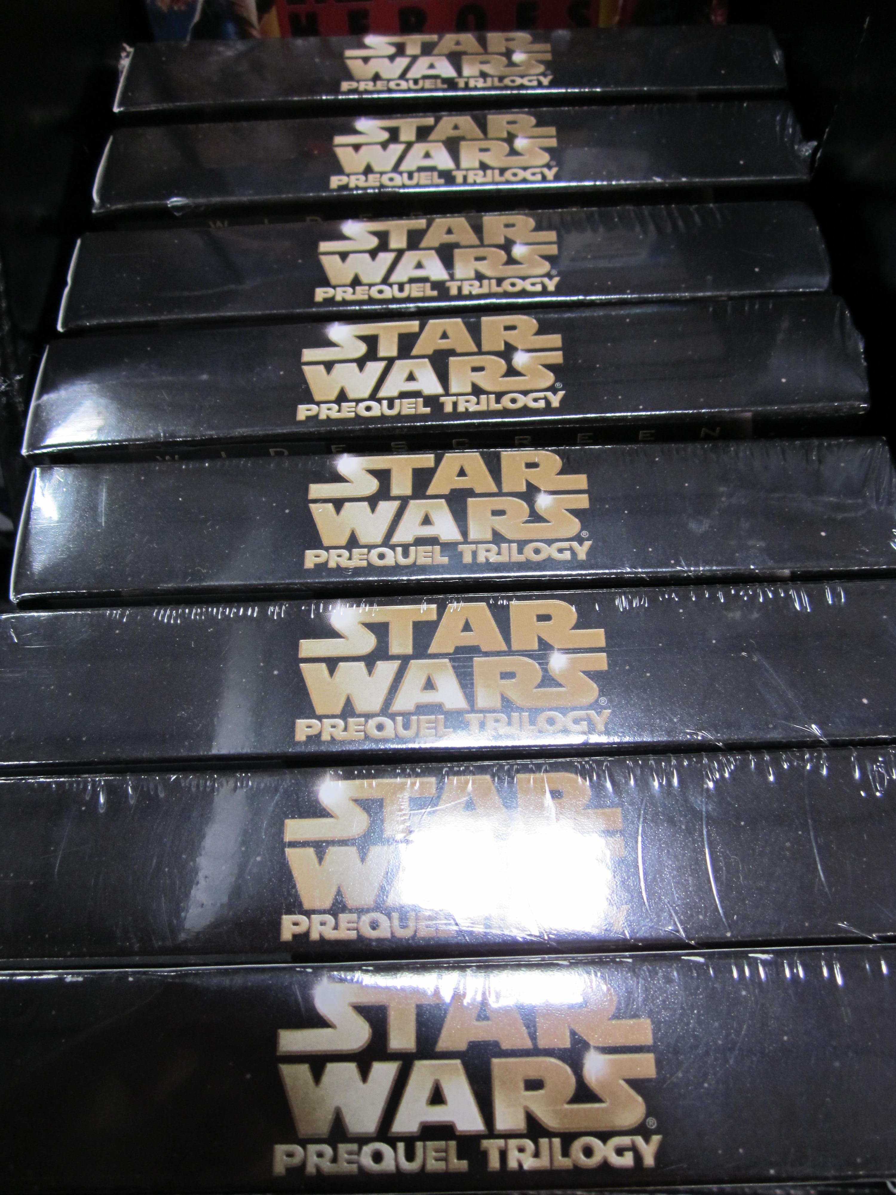 The Star Wars Prequel Trilogy DVD box set at Costco in South San Francisco, California on El Camino Real.